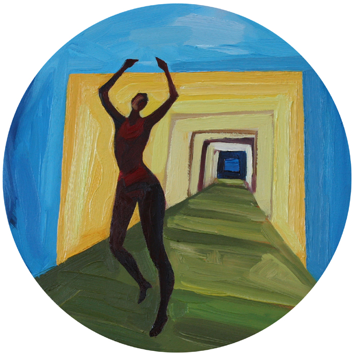 Oil on canvas pinting by Lilla Bodor Hungarian artist. Diameter: 35cm.